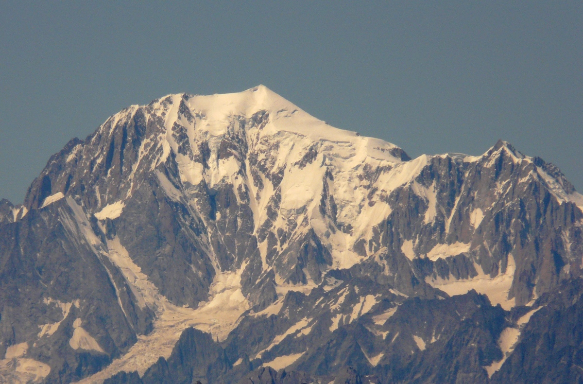 Mont Blanc - East side